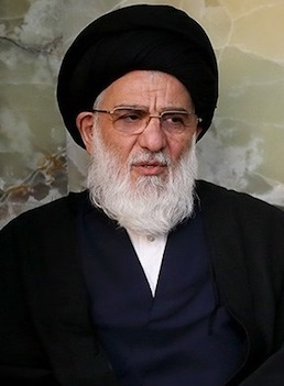 Cropped photograph of Grand Ayatollah Mahmoud Hashemi Shahroudi during a ceremony in Qom